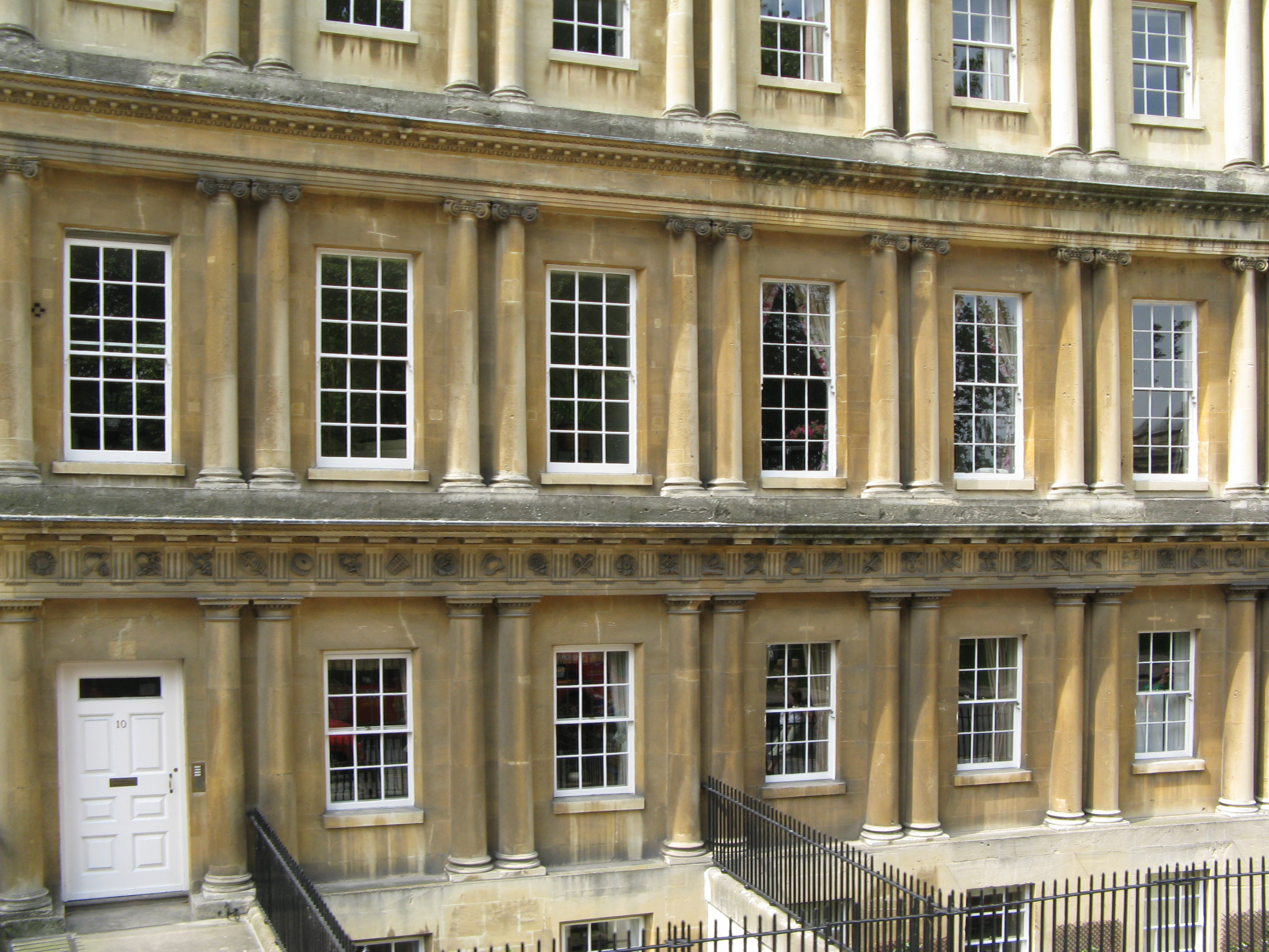 The Circus, Bath, Somerset, England.